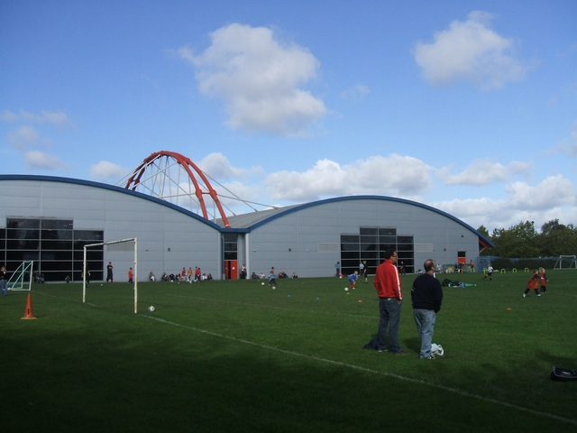 Tipton Sports Academy This council facility has indoor tennis courts, sports pitches and an athletics track. This picture was taken on a Saturday morning with the youngsters football training in full swing.